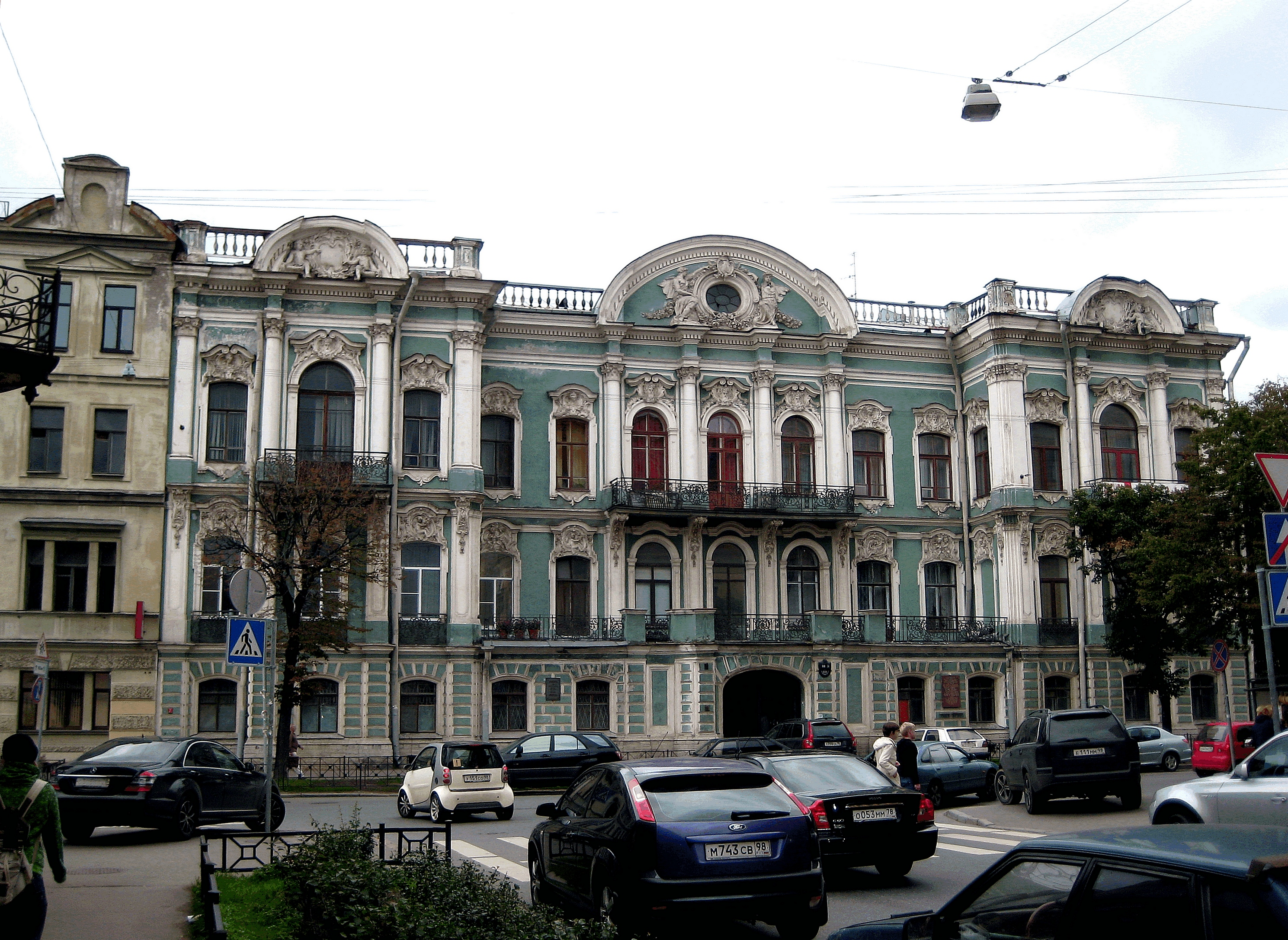 House Buturlinoy (arch. Bosse G.A.), 1857-1860: Tchaikovsky Street, 10. Central District, St. Petersburg.